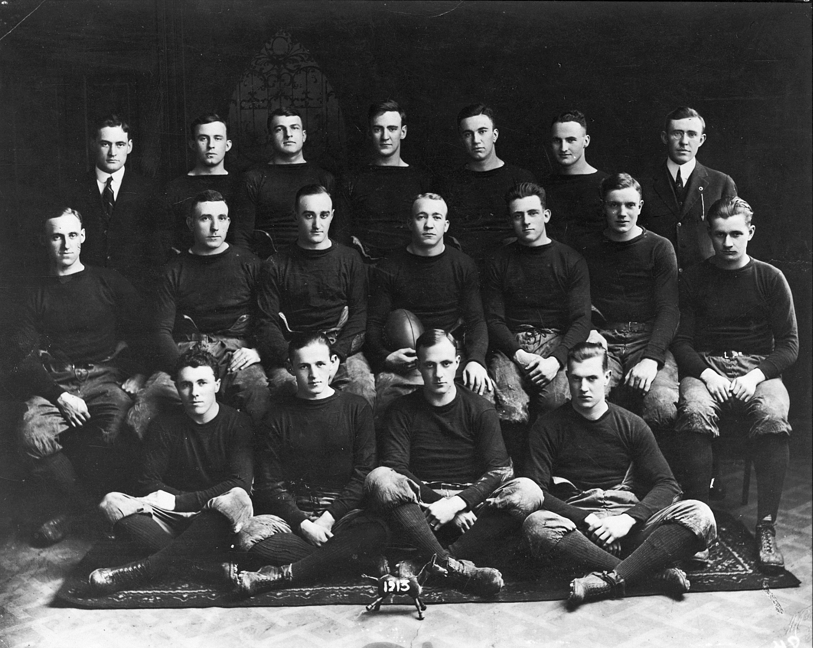 Notre Dame football team with a toy mule, 1913. Back Row: Assistant Coach Edwards, Emmett Keefe, Ray Eichenlaub, Albert King, Freeman (Fitz) Fitzgerald, Charles (Sam) Finegan, Coach Jesse Harper Middle Row: Ralph (Zipper) Lathrop, Keith (Deak) Jones, Joe Pliska, Captain Knute Rockne, Gus Dorais, Fred (Gus) Gushurst, Al Feeney Front Row: Allen (Mal) Elward, Alfred (Dutch) Bergman, Bill Cook, Art (Bunny) Larkin